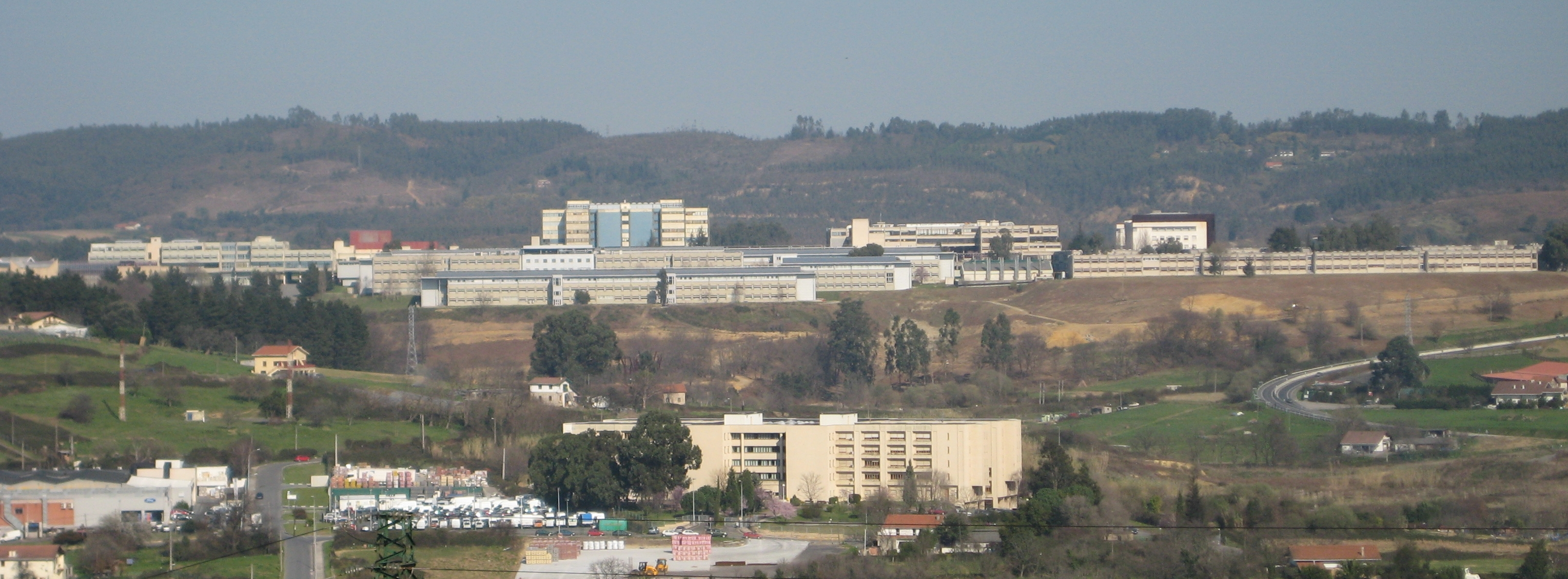 Campus of the University of the Basque Country in Leioa and Erandio, Biscay, as seen from the Three Crosses hill of Erandio